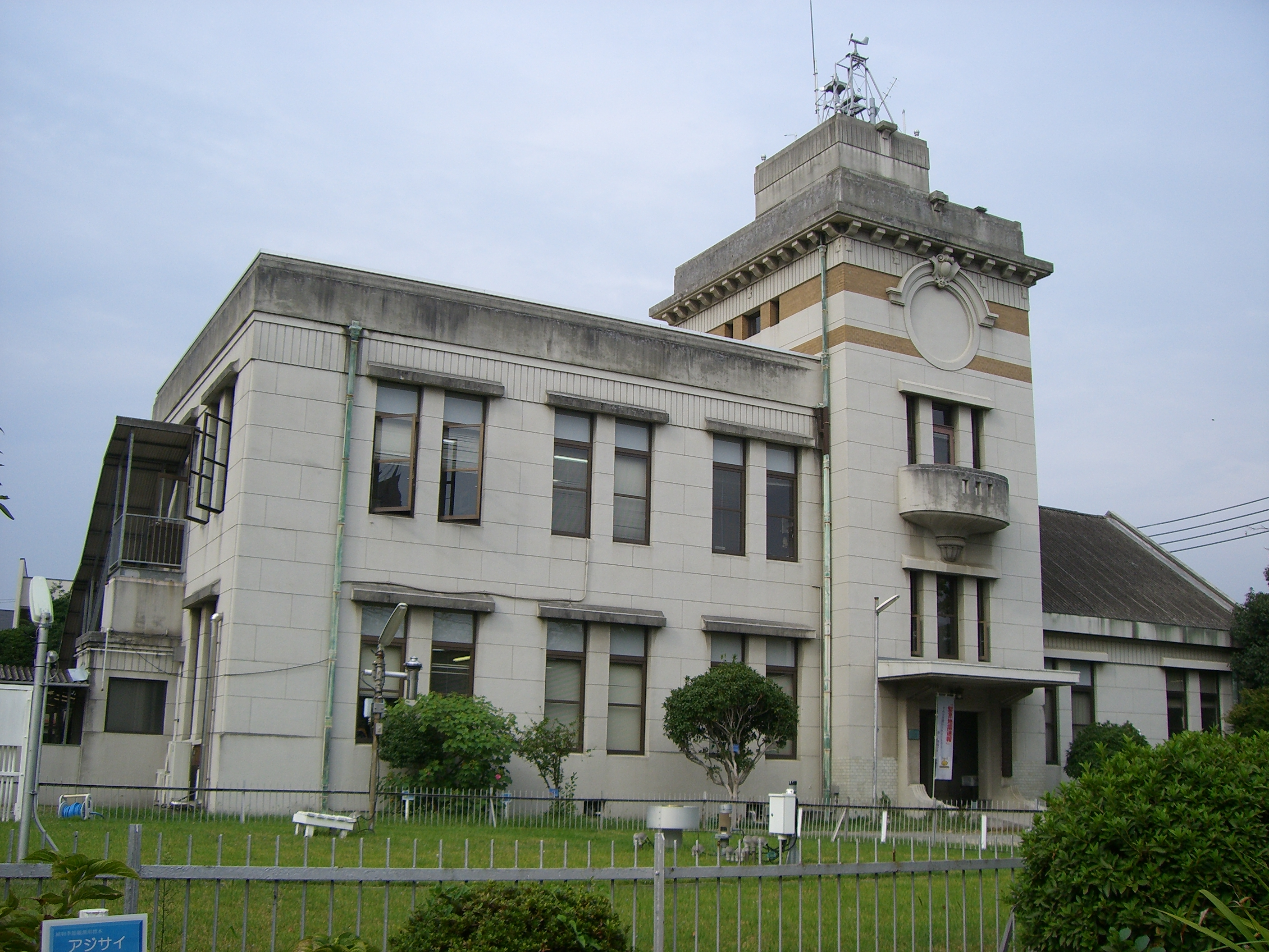 The Matsuyama Local Meteorological Observatory building was designated as a registered tangible cultural property in March of the 2006th year.